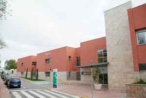 Hospital Virgen de Altagracia